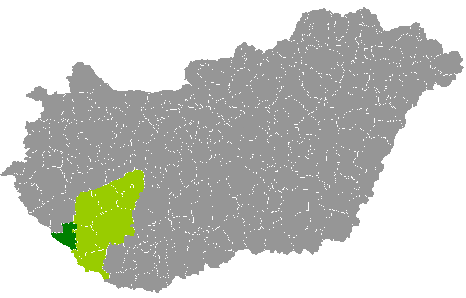 Location of Csurgó District, Somogy, Hungary